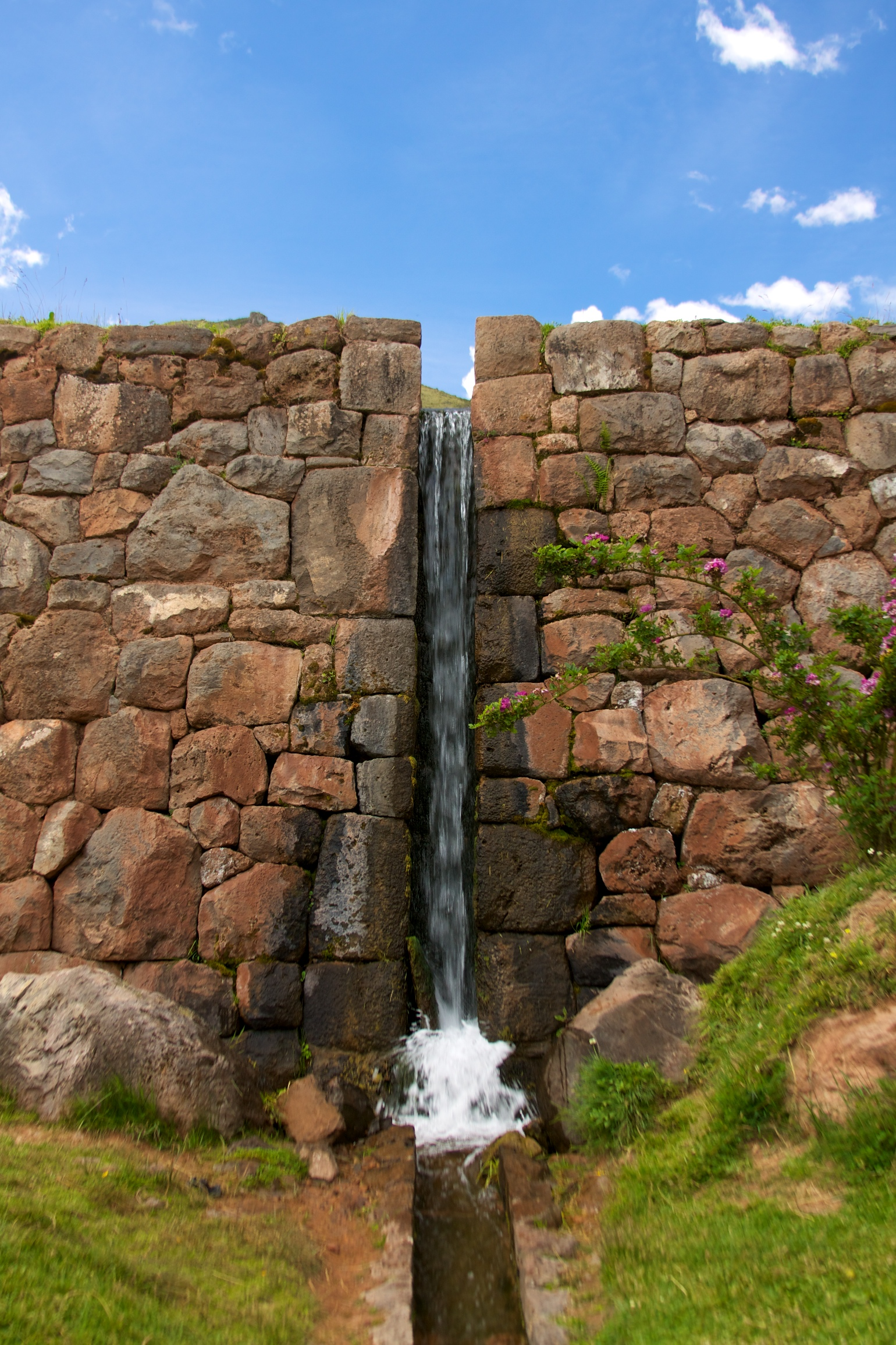 What makes Tipón an interesting Incan site is the sopisticated water distribution through the agriculture terraces, water running through stone-lined channels and out spouts to different levels and parts.